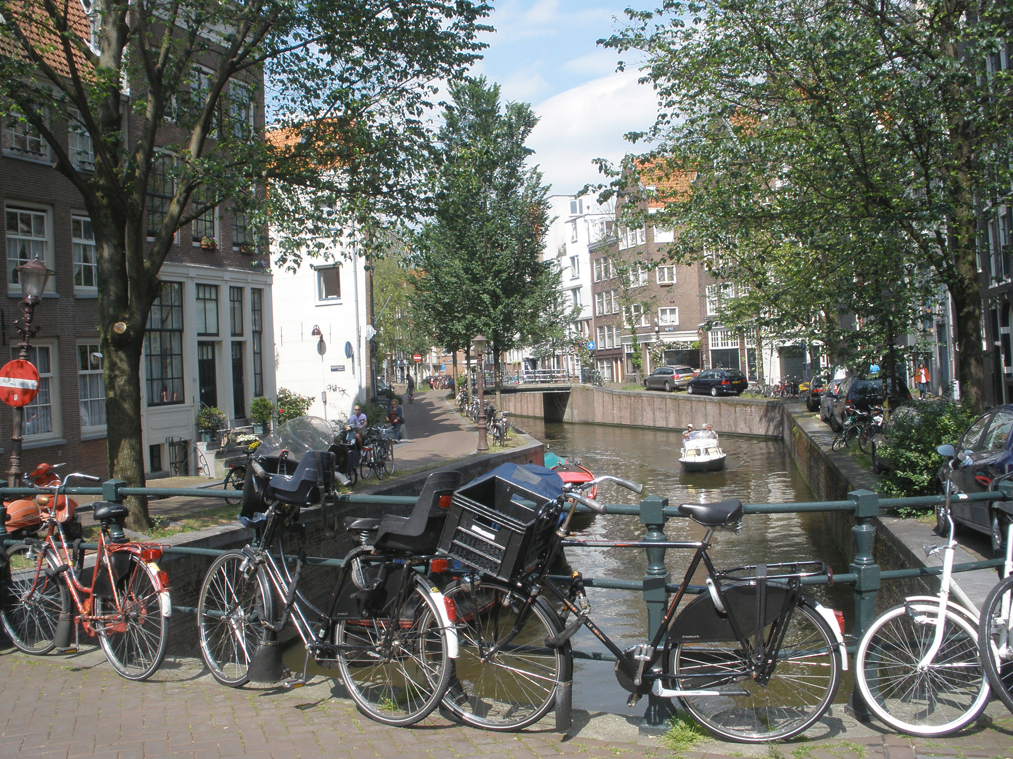 Kromboomssloot canal in Amsterdam, the Netherlands